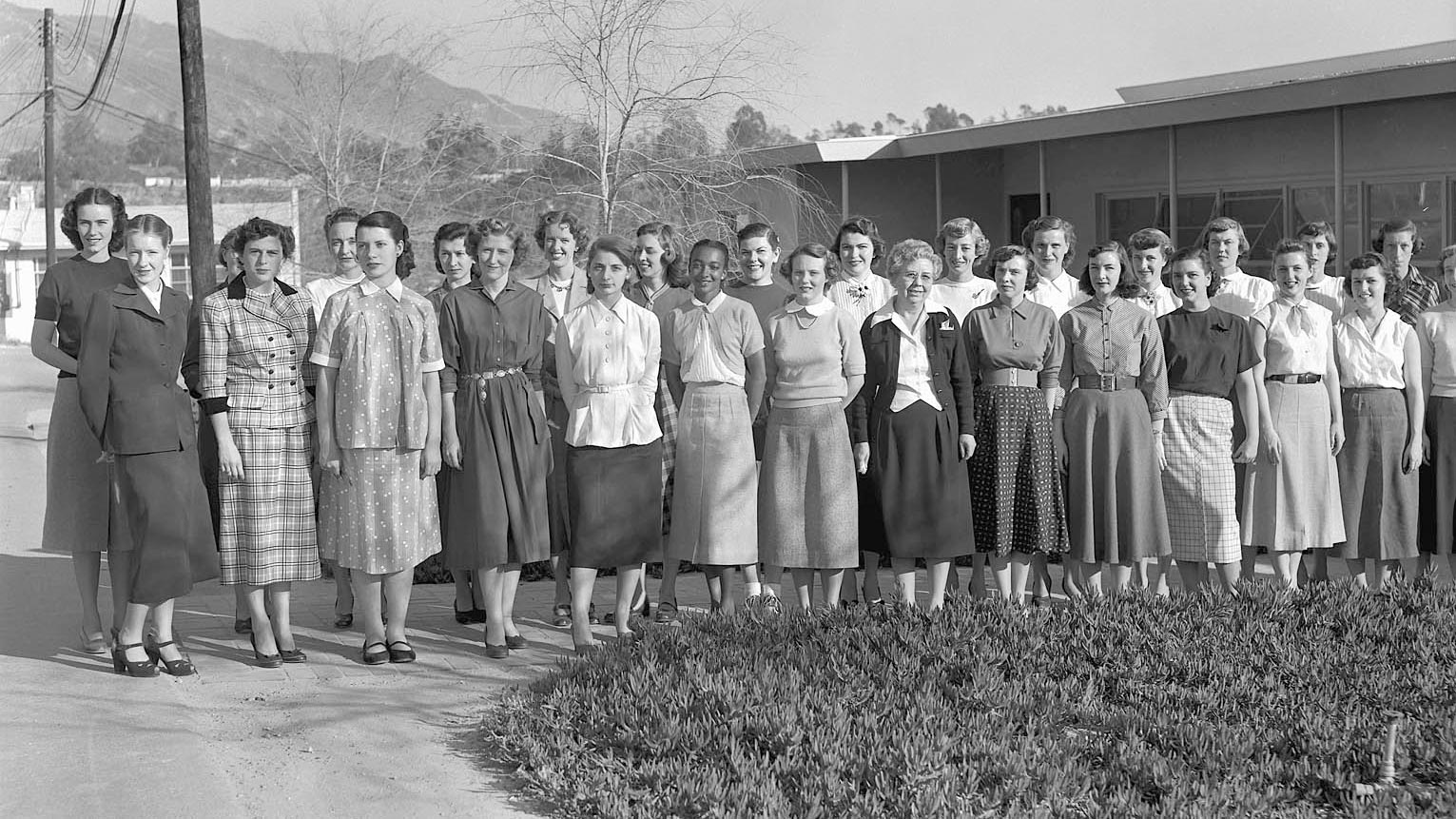 During the 1940s and 1950s, JPL used the word "computer" to refer to a person rather than a machine. The all-female computer team, many of the members recruited right out of high school, were responsible for doing all the math by hand required to plot satellite trajectories and more.